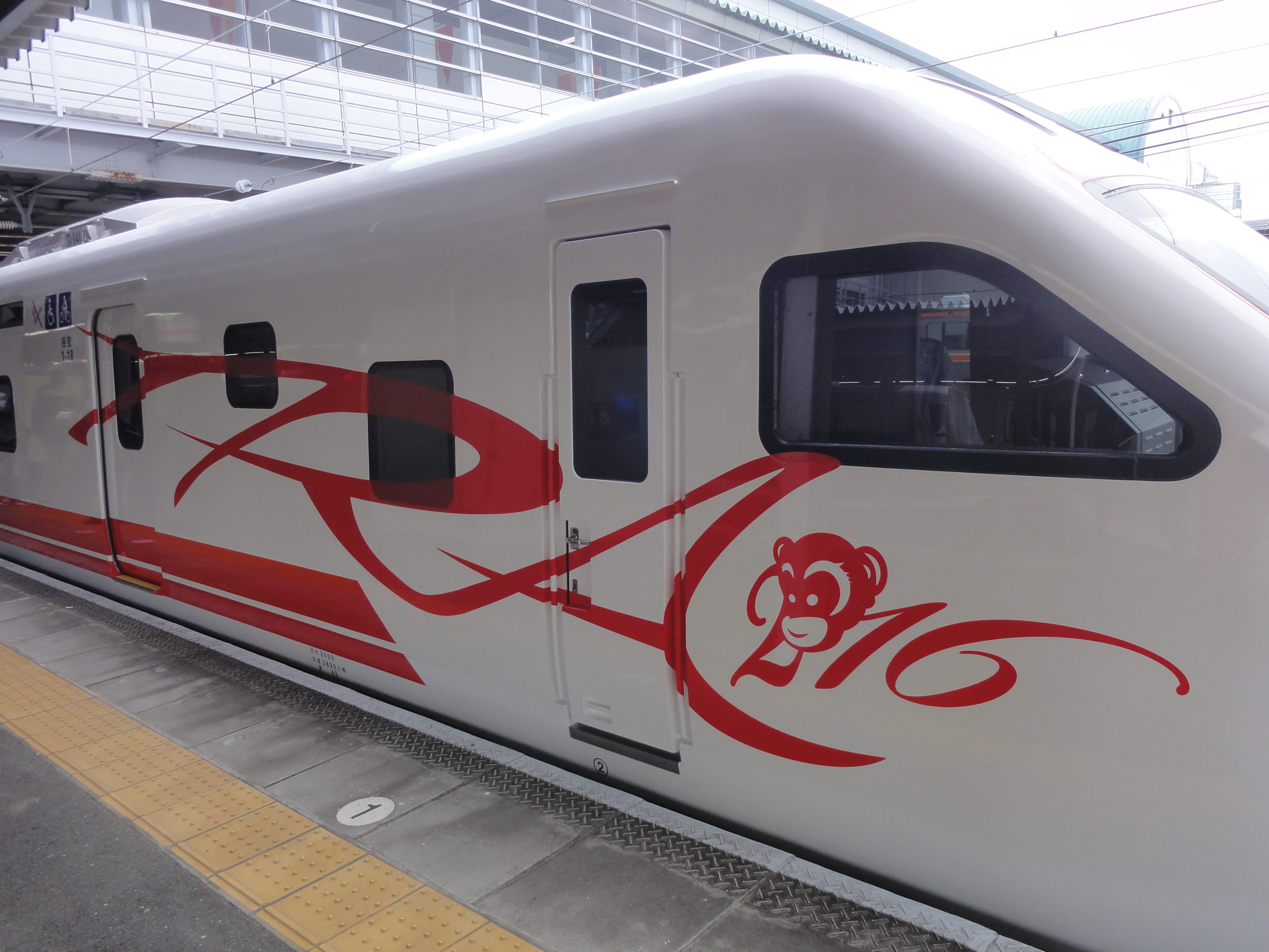 A TRA TEMU2000 series EMU on delivery at Toyohashi Station in Japan